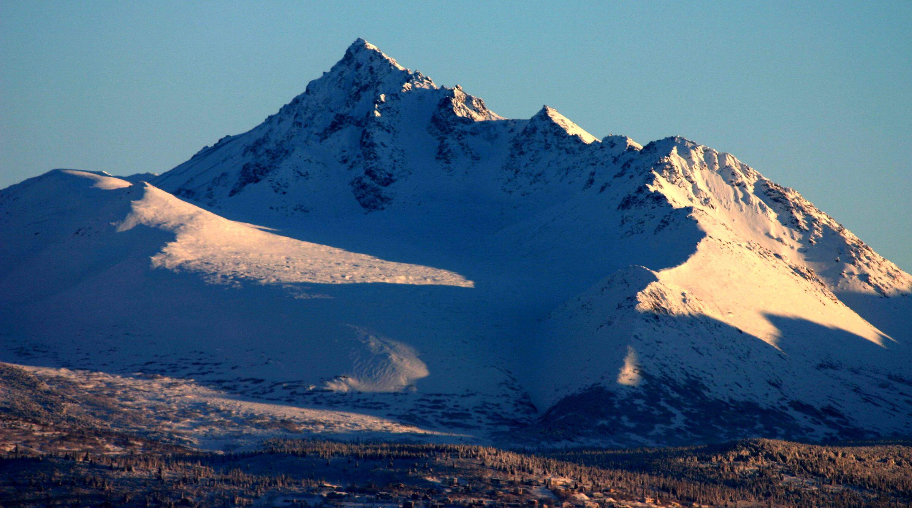 Taken from a view point near Anchorage International Airport, Alaska in January 2008.